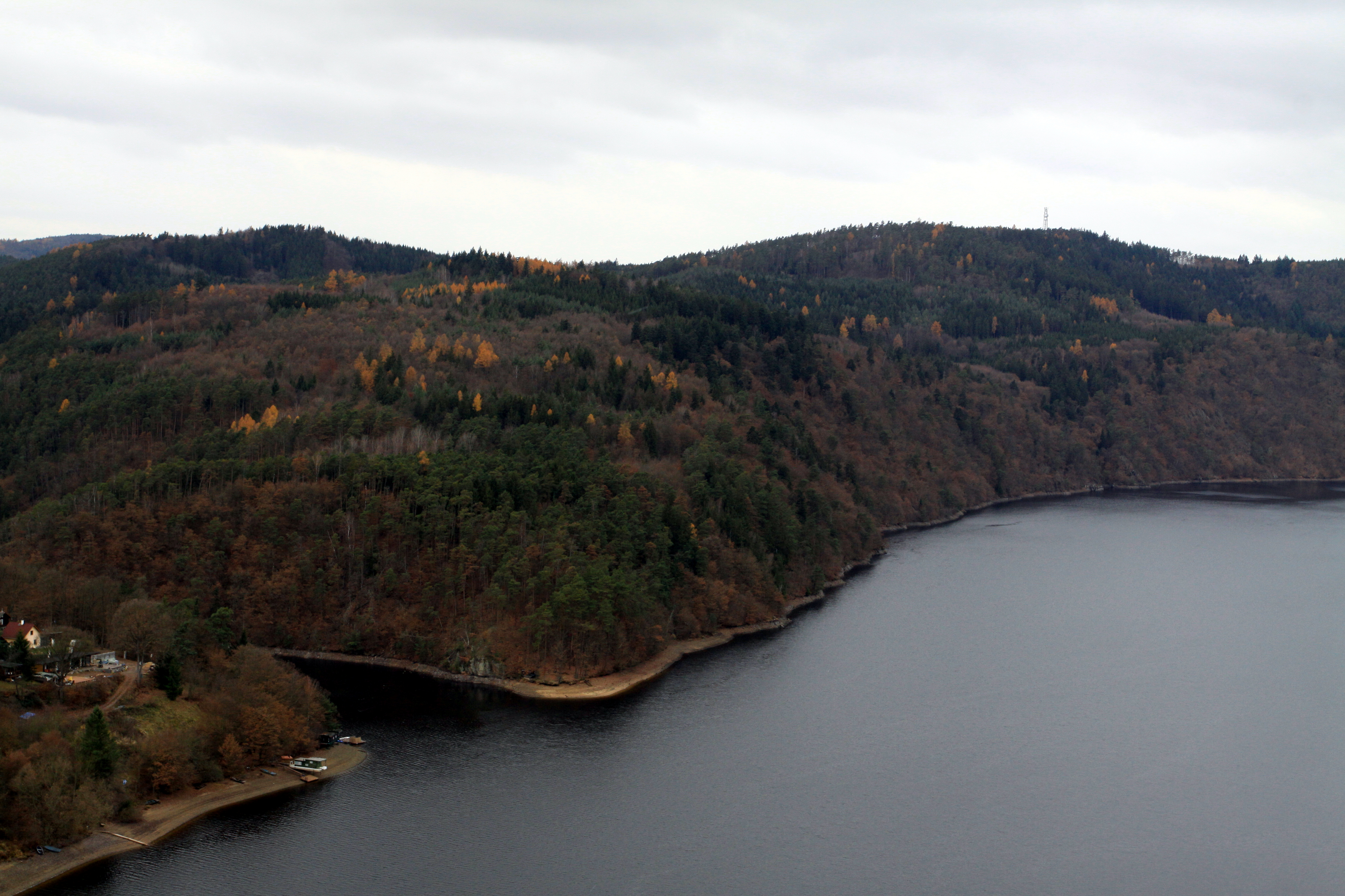 Nature reserve Vymyšlenská pěšina from national nature reserve Drbákov - Albertovy skály in Příbram District, Czech Republic